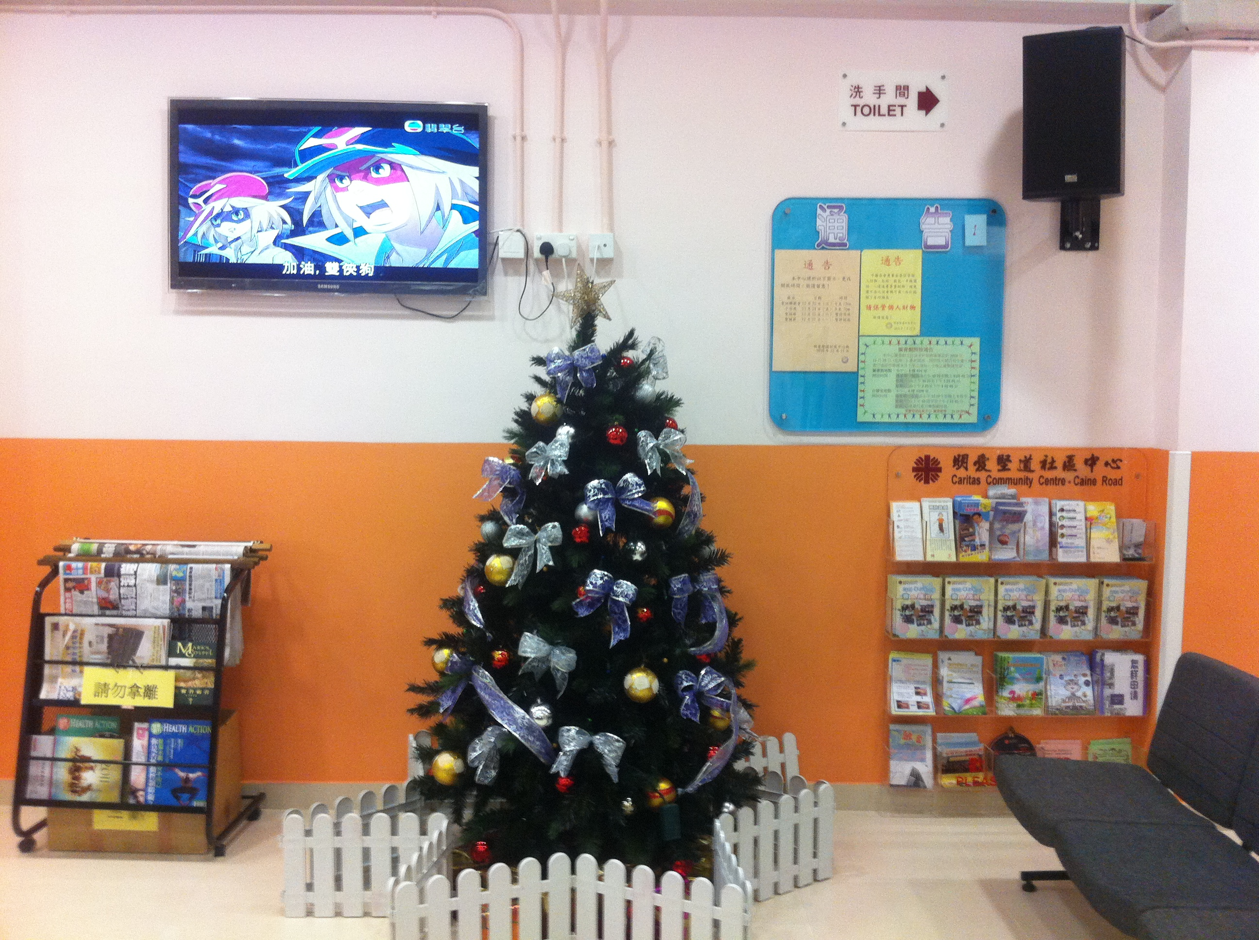 香港島 明愛中心 (堅道)